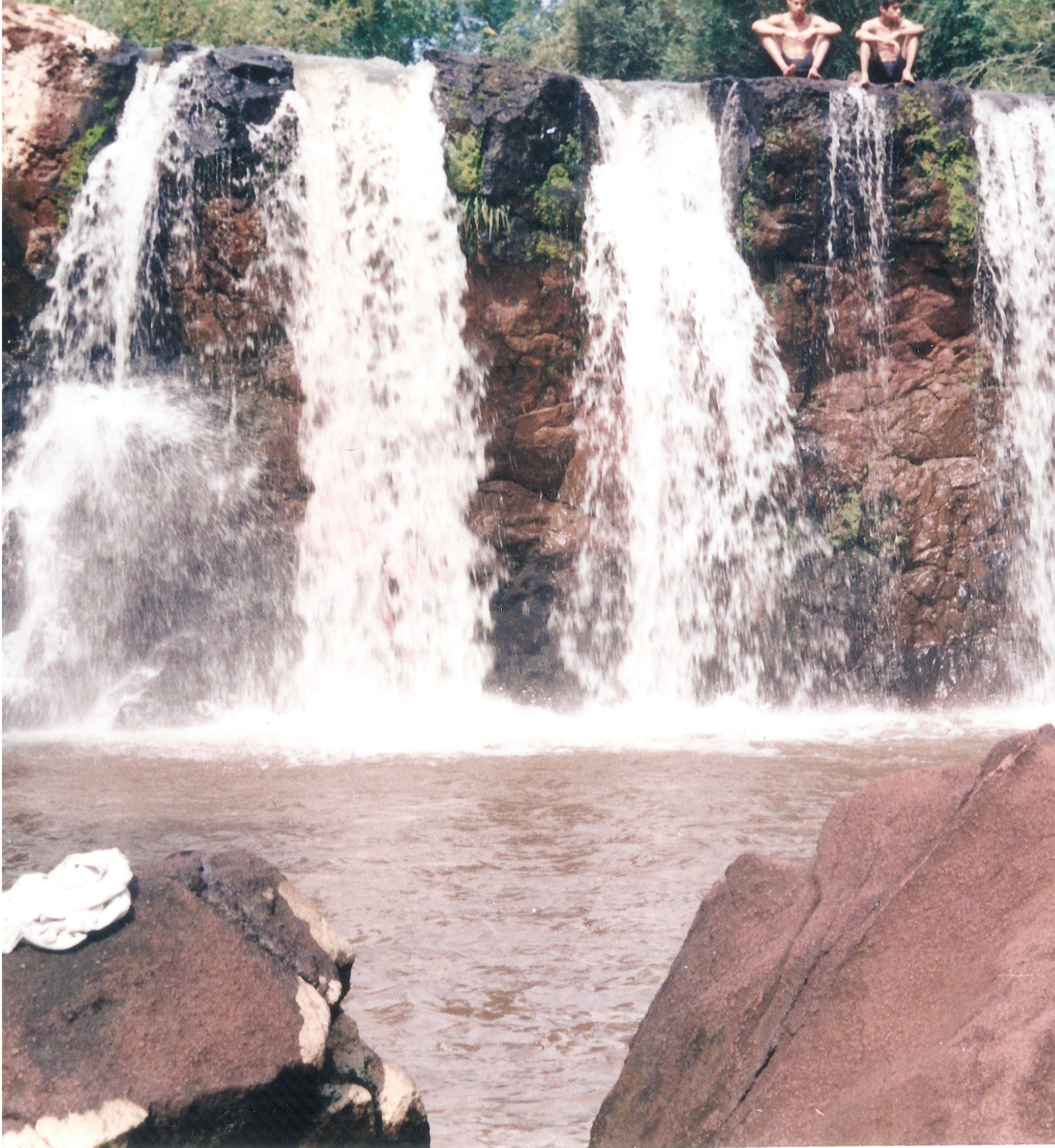 A view of Capiovi Fall seen from the rocks in a side of Capiovi Stream. You can also see the natural pool.